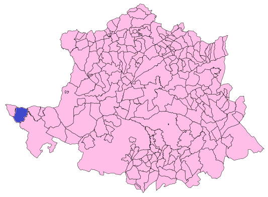 Herrera de Alcántara